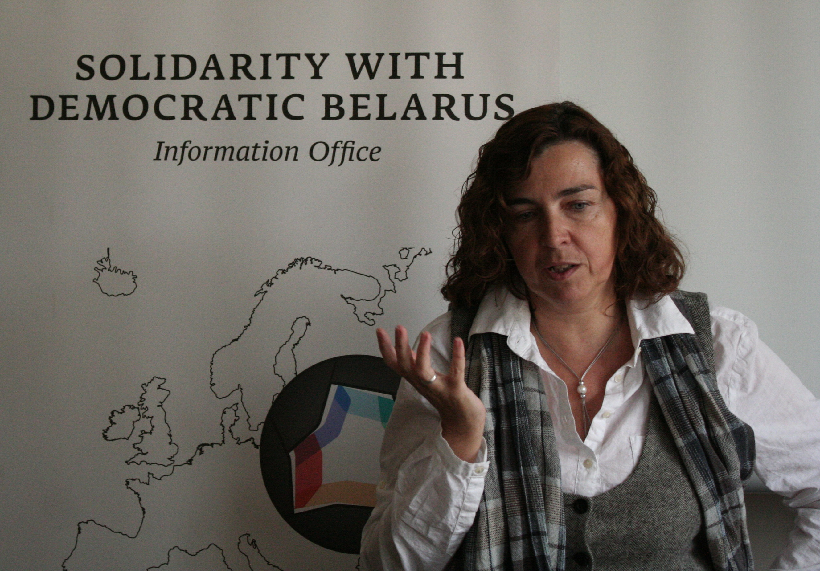 Information Office of Solidarity with Belarus (Warsaw) and its chairman, Julia Slucskaia